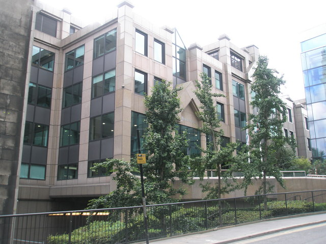 Headquarters of Old Mutual on Lambeth Hill An international finance group.